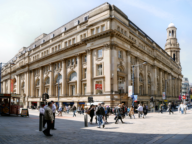 An exterior photo of the Royal Exchange building in Manchester city centre, England